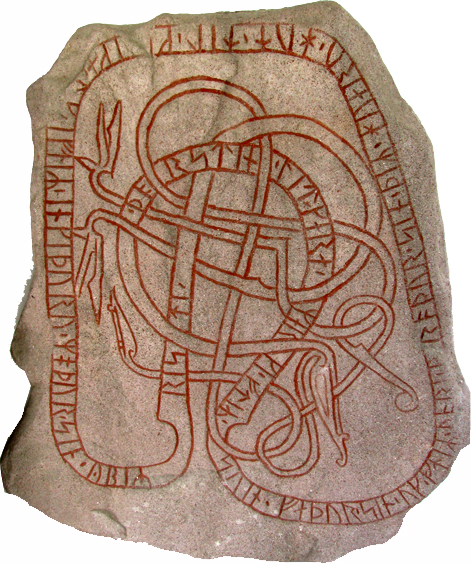 runestone